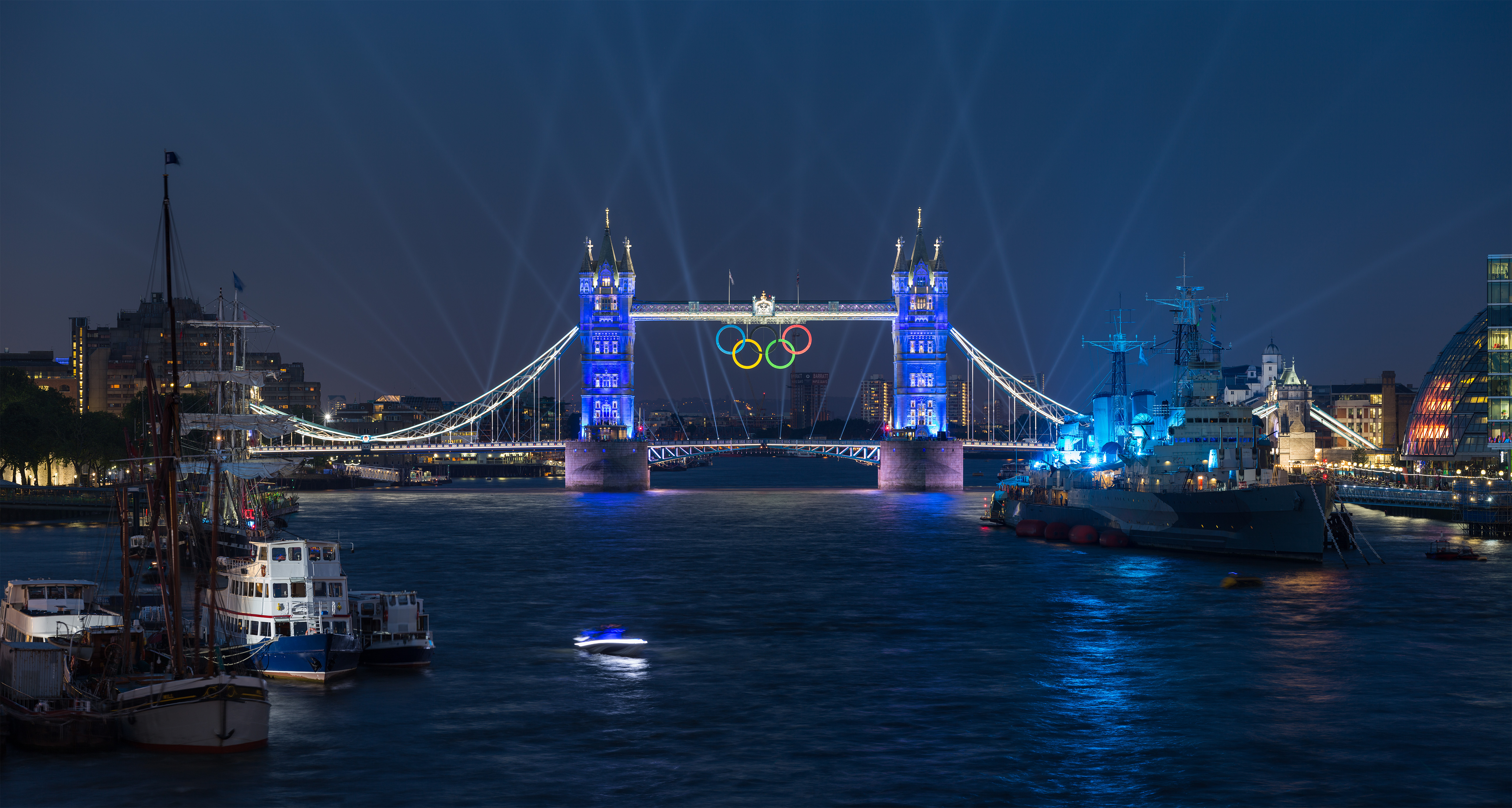 Tower Bridge, lit up to celebrate the London 2012 Summer Olympics.